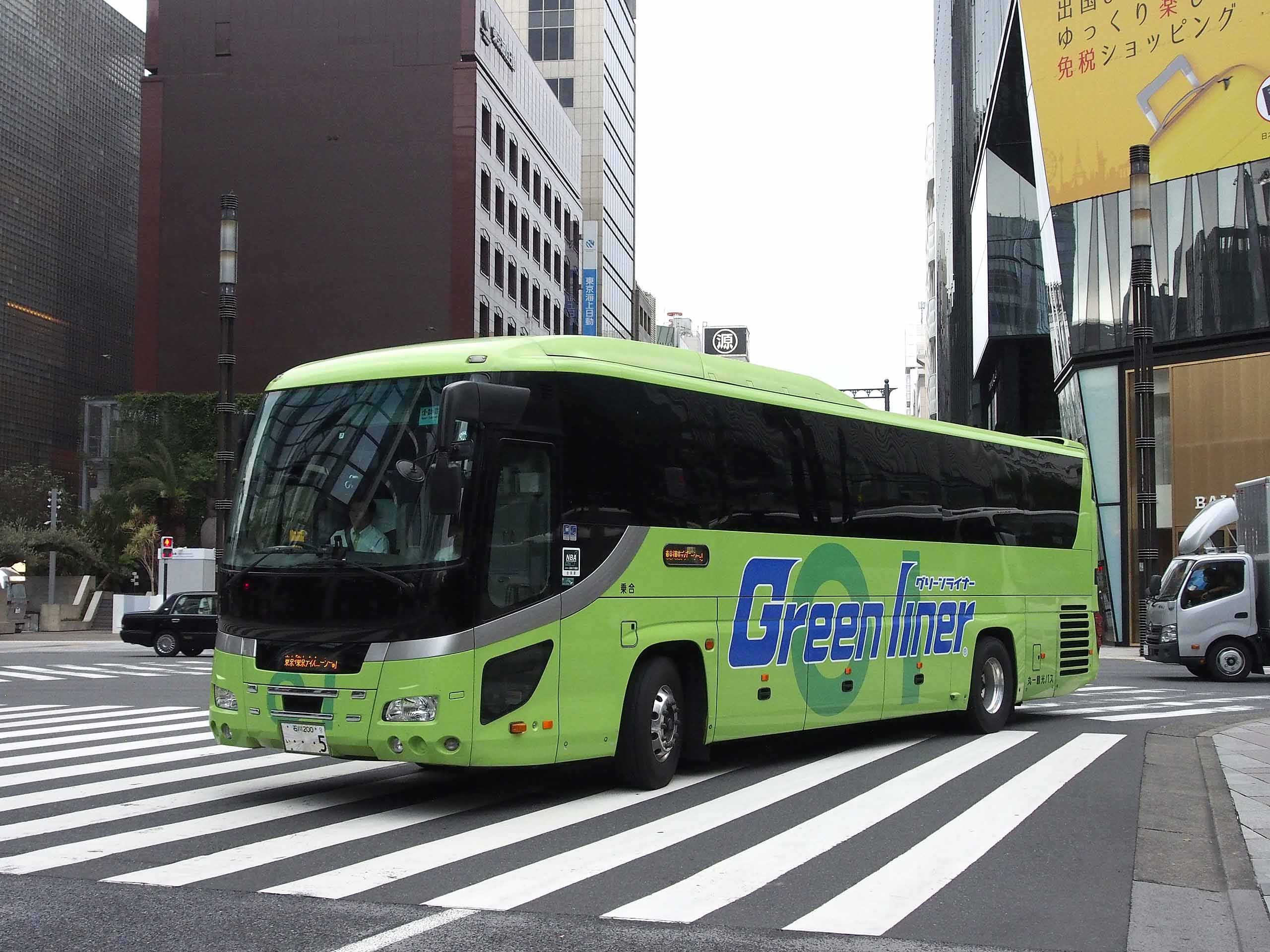 Fleet of Maruichi Kanko Bus, for intercity route bus "Green Liner". Model: Isuzu Gala HD License plate: ISK200 I0005 Place: Sukiyabashi Crossing, Ginza, Chuo Ward, Tokyo Japan